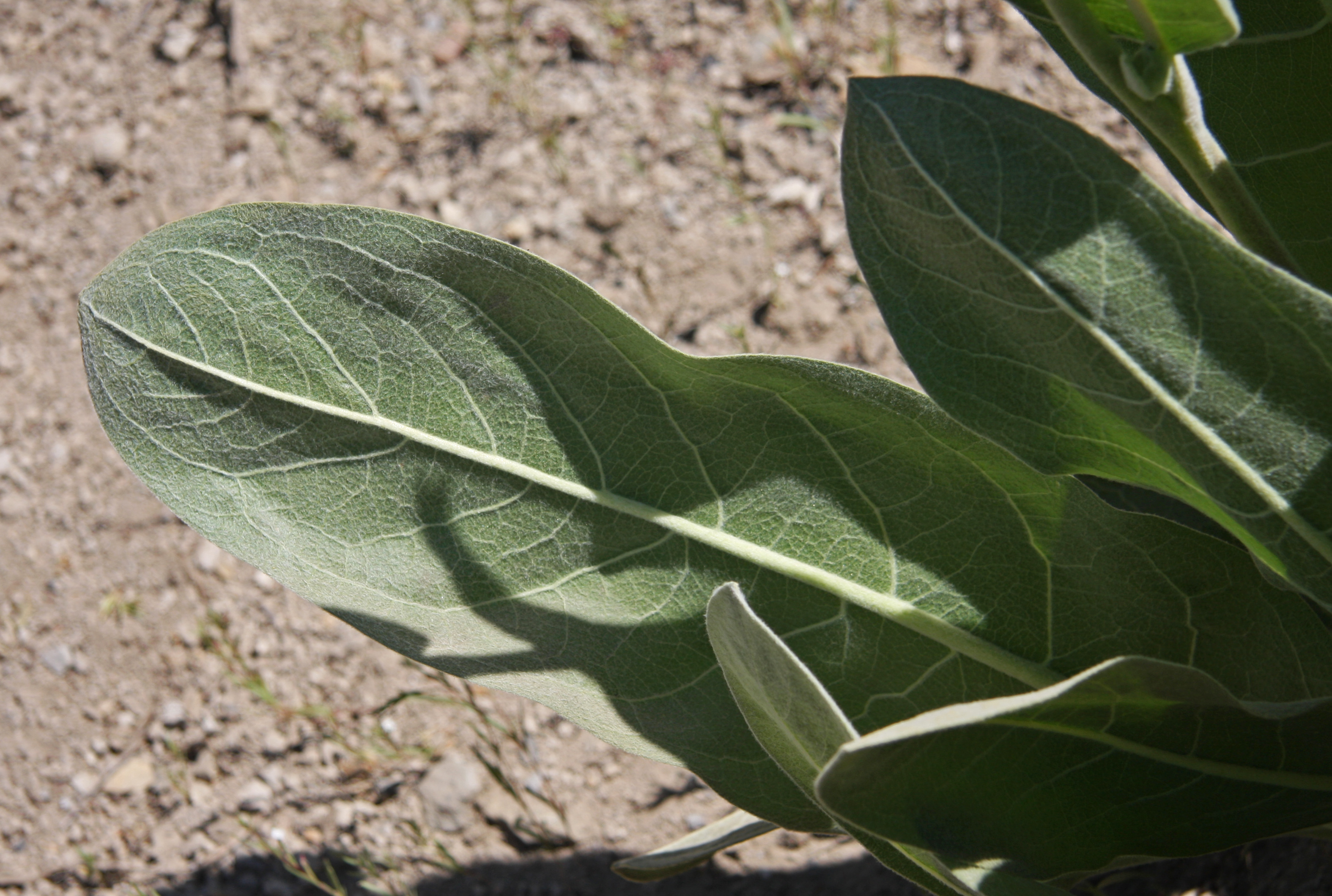 Mule ears (Wyethia mollis), huge fuzzy leaf (like a mule's ear) from underside. At about 9000ft along High Trail (part of the Pacific Crest Trail) above Agnew Meadows, Ansel Adams Wilderness, California.